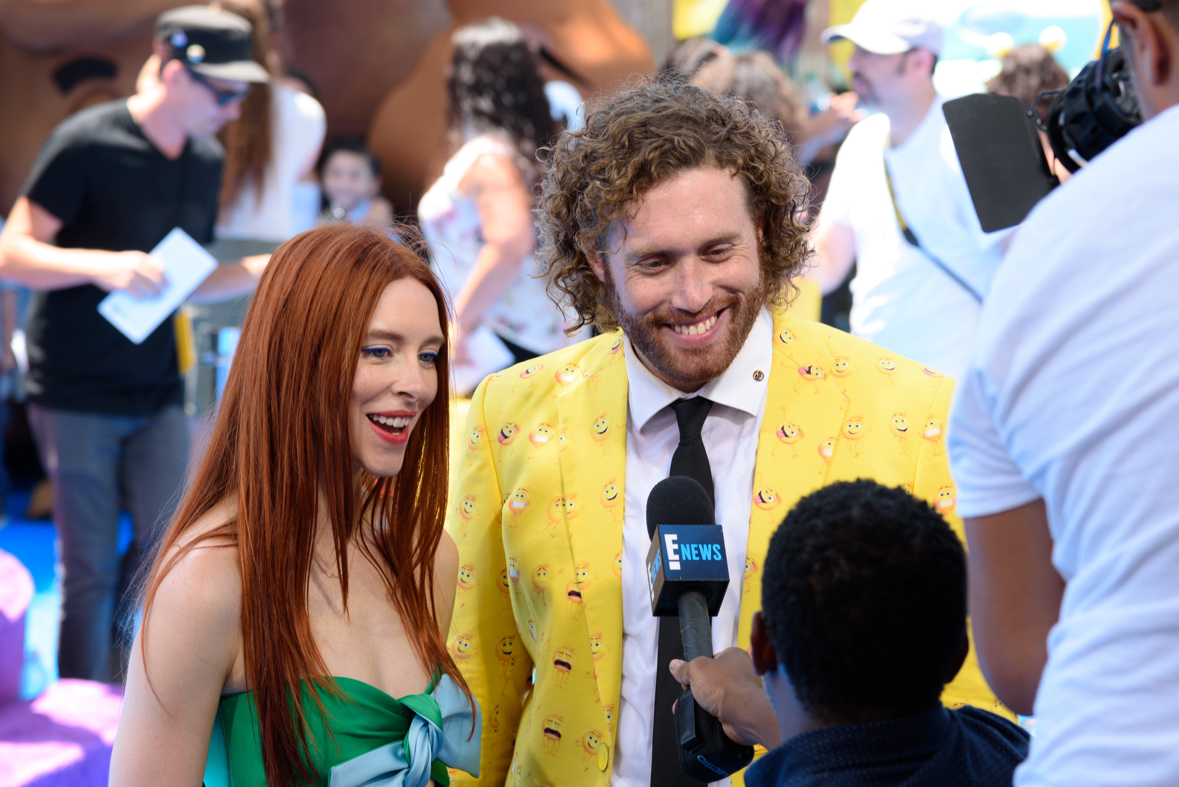 The Emoji Movie premiere at the Fox Theatre, Westwood Village